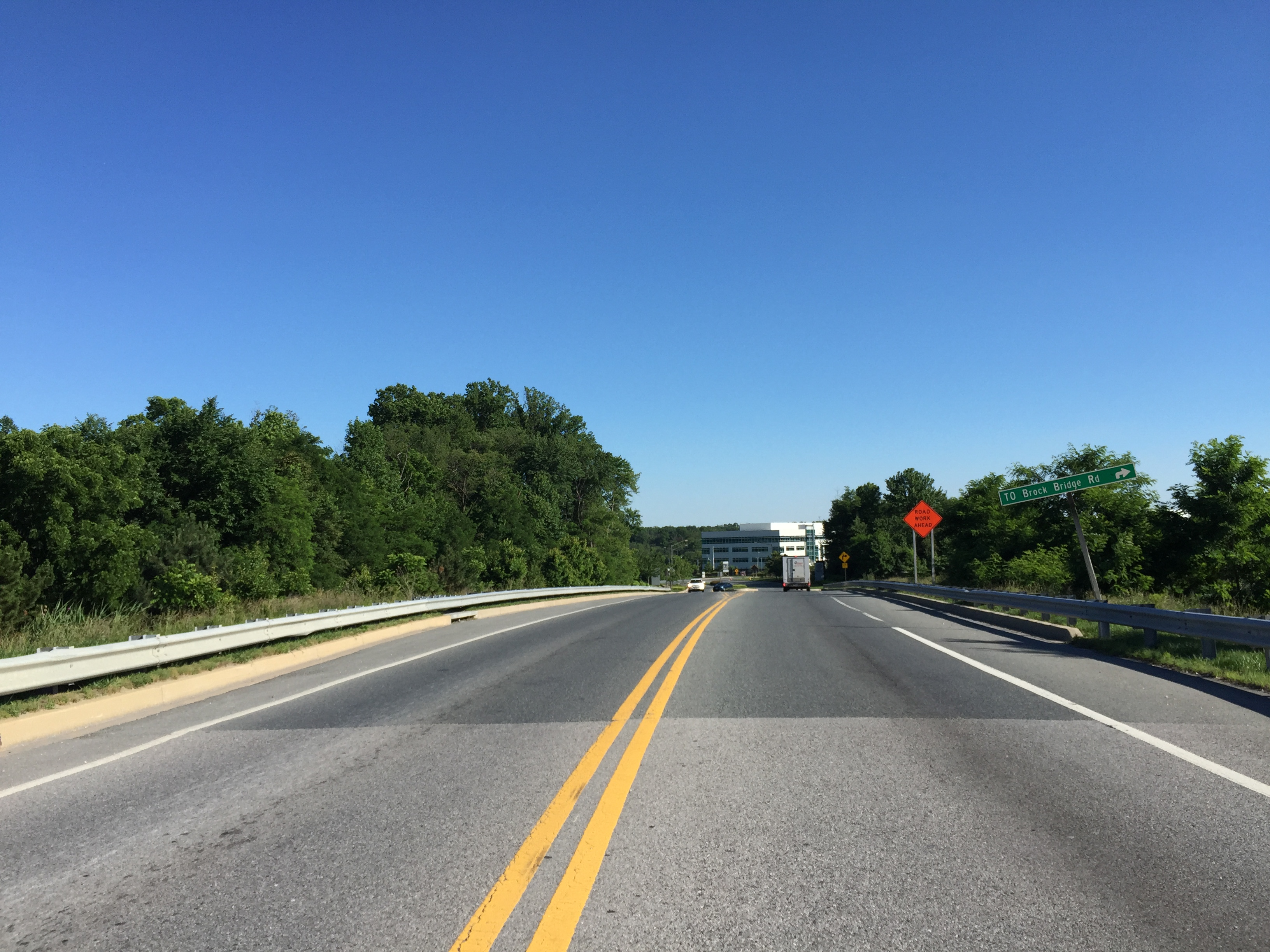 View south along Maryland State Route 732 (Dorsey Run Road) just north of Dorsey Run Loop in Maryland City, Anne Arundel County, Maryland